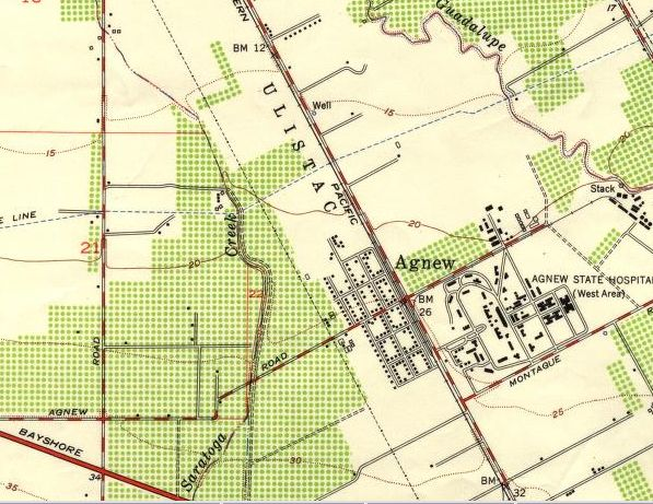 U.S. Geological Survey map from 1953, showing the former Agnew's Village, California. The village is noted where Agnew Rd crosses the Southern Pacific railroad track (running parallel to Lafayette Ave.), in Santa Clara, California. USGS legend (top): MILPITAS QUADRANGLE CALIFORNIA 7.5 MINUTE SERIES (TOPOGRAPHIC) NW/4 SAN JOSE 15' QUADRANGLE USGS legend (bottom): MILPITAS, CALIF. NW/4 SAN JOSE 15' QUADRANGLE N3722.5—W12152.5/7.5 1953